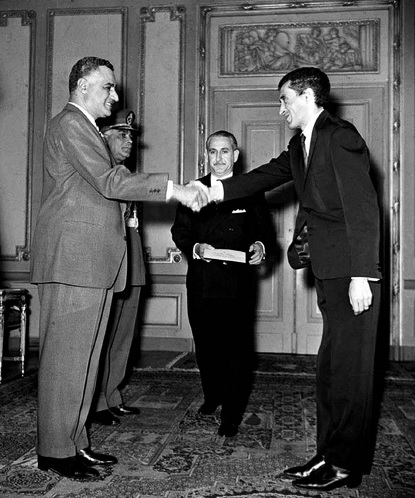 Algerian Ambassador to Egypt Lakhdar Brahimi shaking hands with Egyptian President Gamal Abdel Nasser after presenting his credentials to him